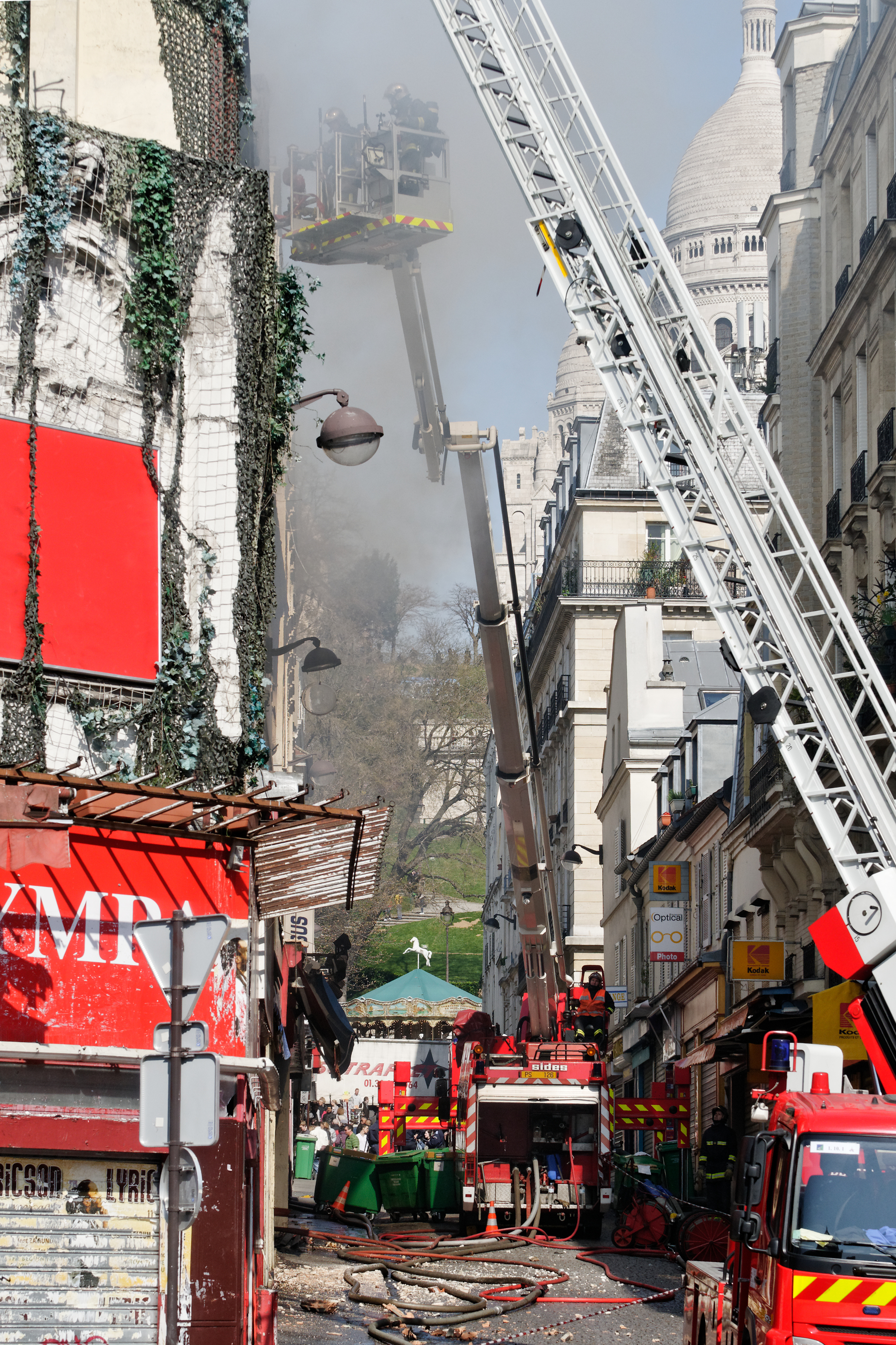 Firefighters working on the fire at the Élysée Montmartre.